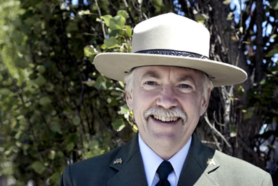 Jon Jarvis, Director of the National Park Service